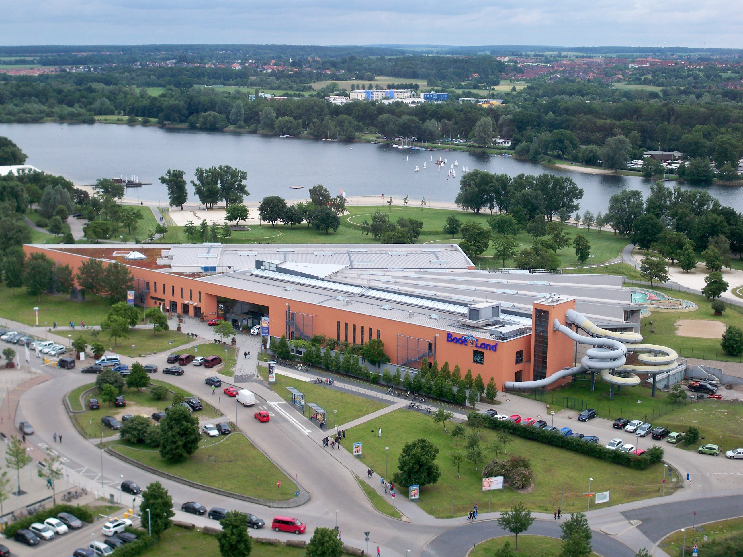 Wolfsburg, Lower Saxony, BadeLand with Allersee